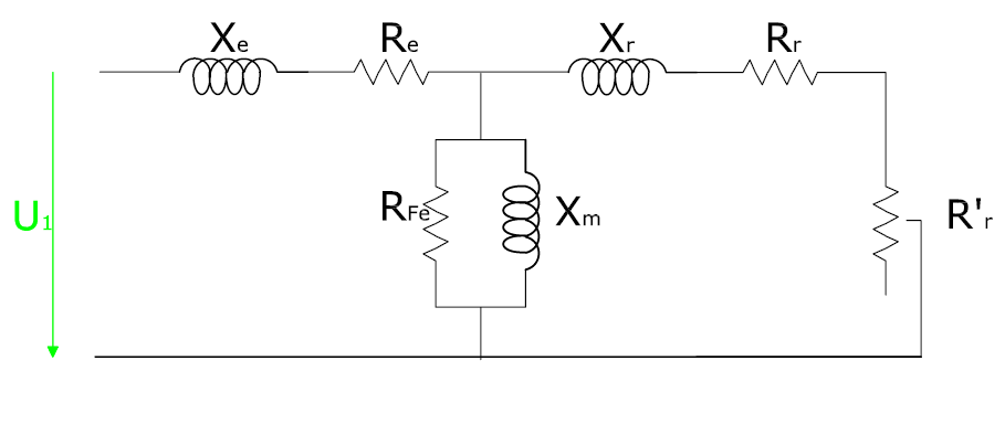 Mathematical model for Asynchronous machine